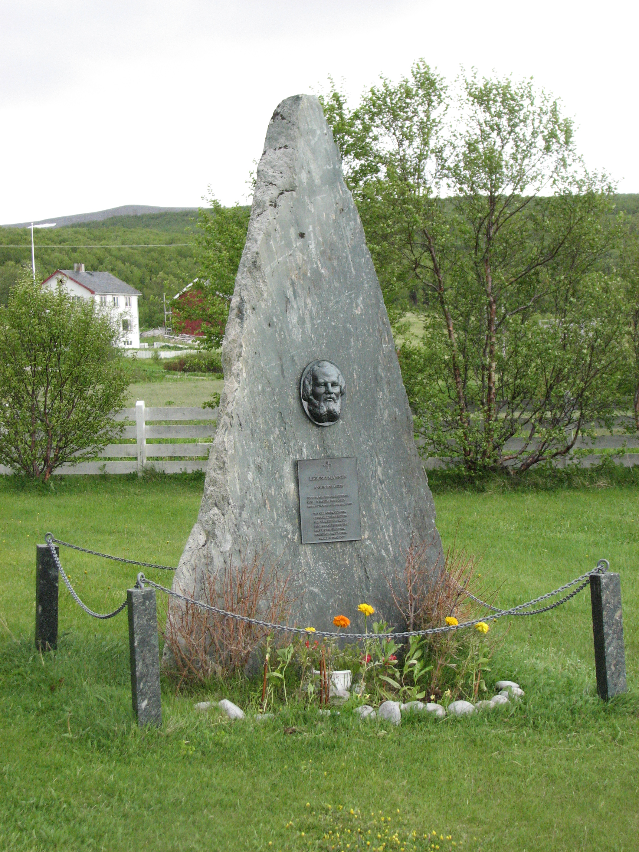 Lebesby church, Lebesby municipality, Norway